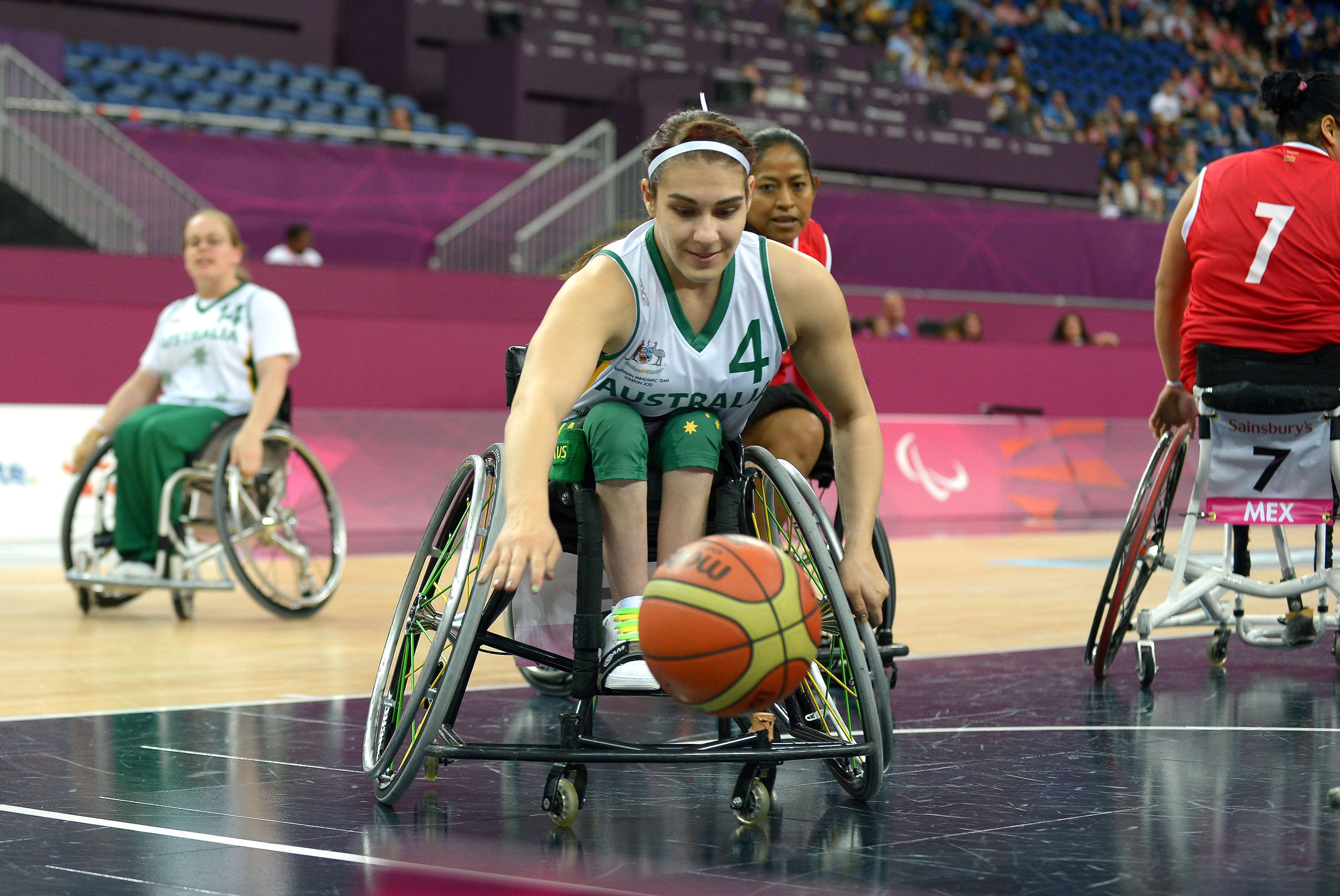 Photograph of Australian Paralympic team member Sarah Vinci at the 2012 Summer Paralympic Games in London